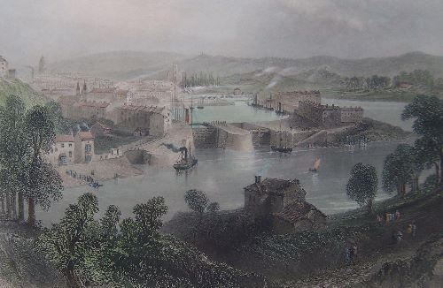 View of the Rownham Ferry and River Avon in Bristol.